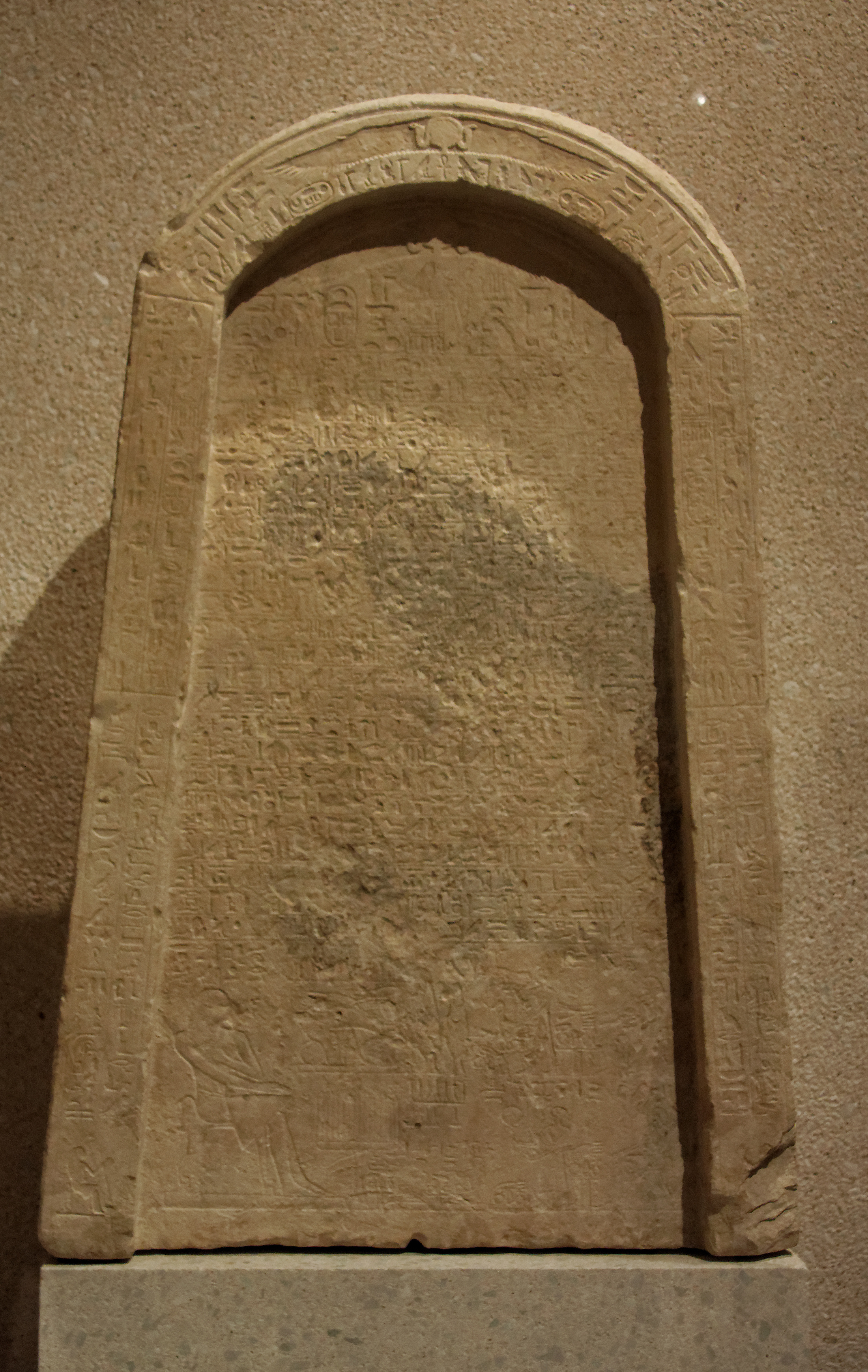 Ikhernofret's stela in a museum of Berlin, Germany